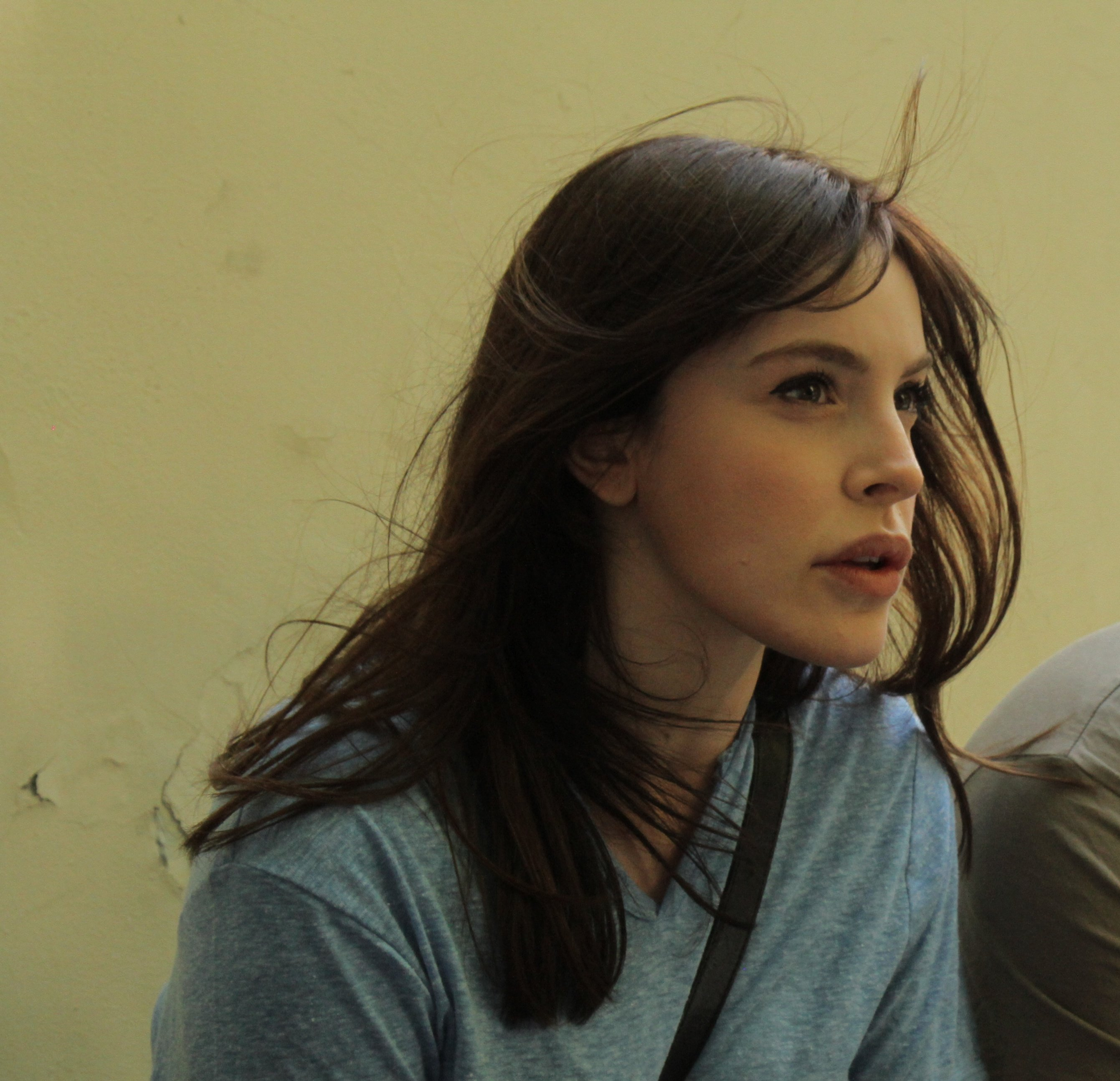 Diana Dell at the Entropiya shooting